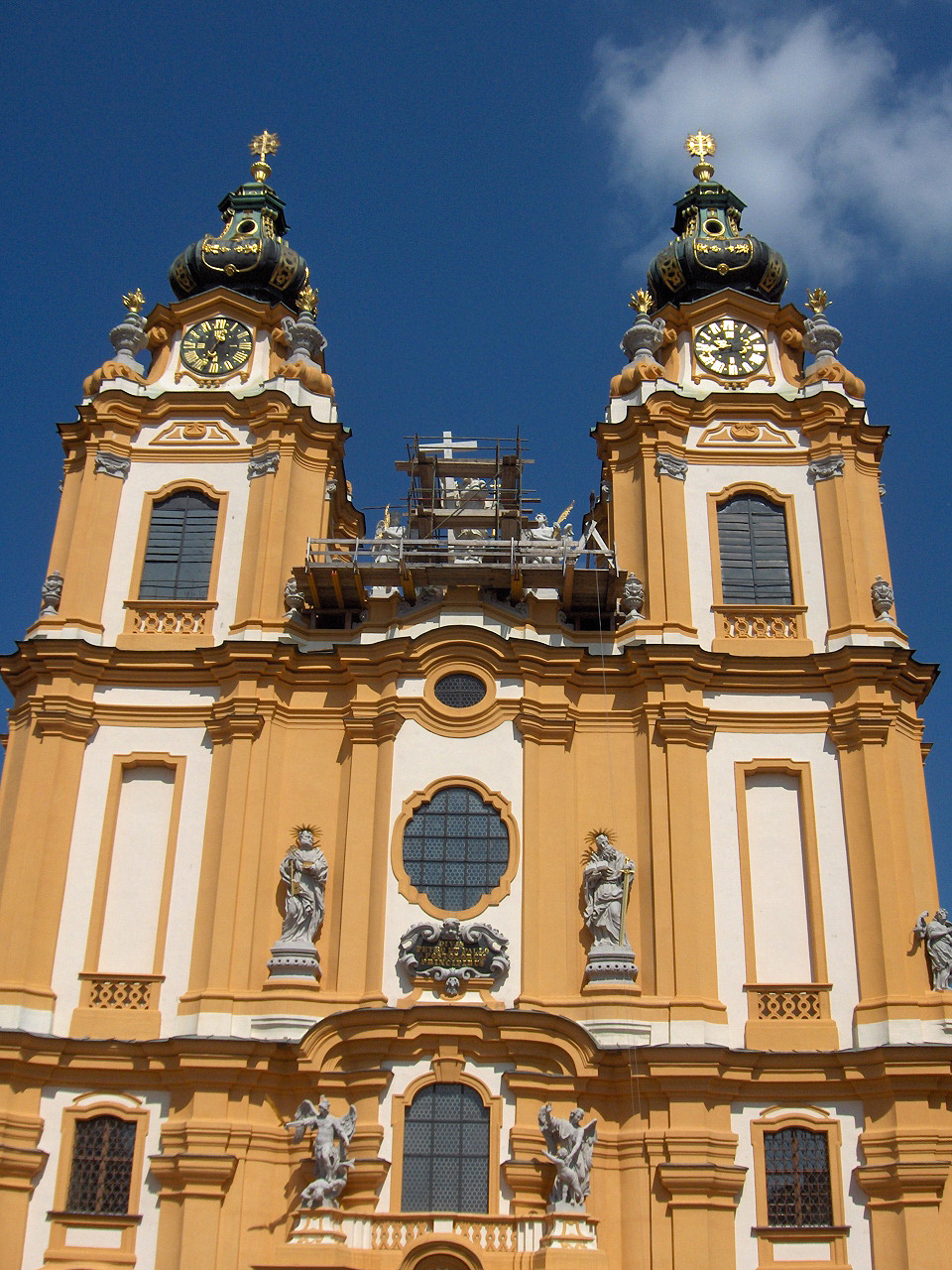 Church façade of the Melk Abbey, Austria